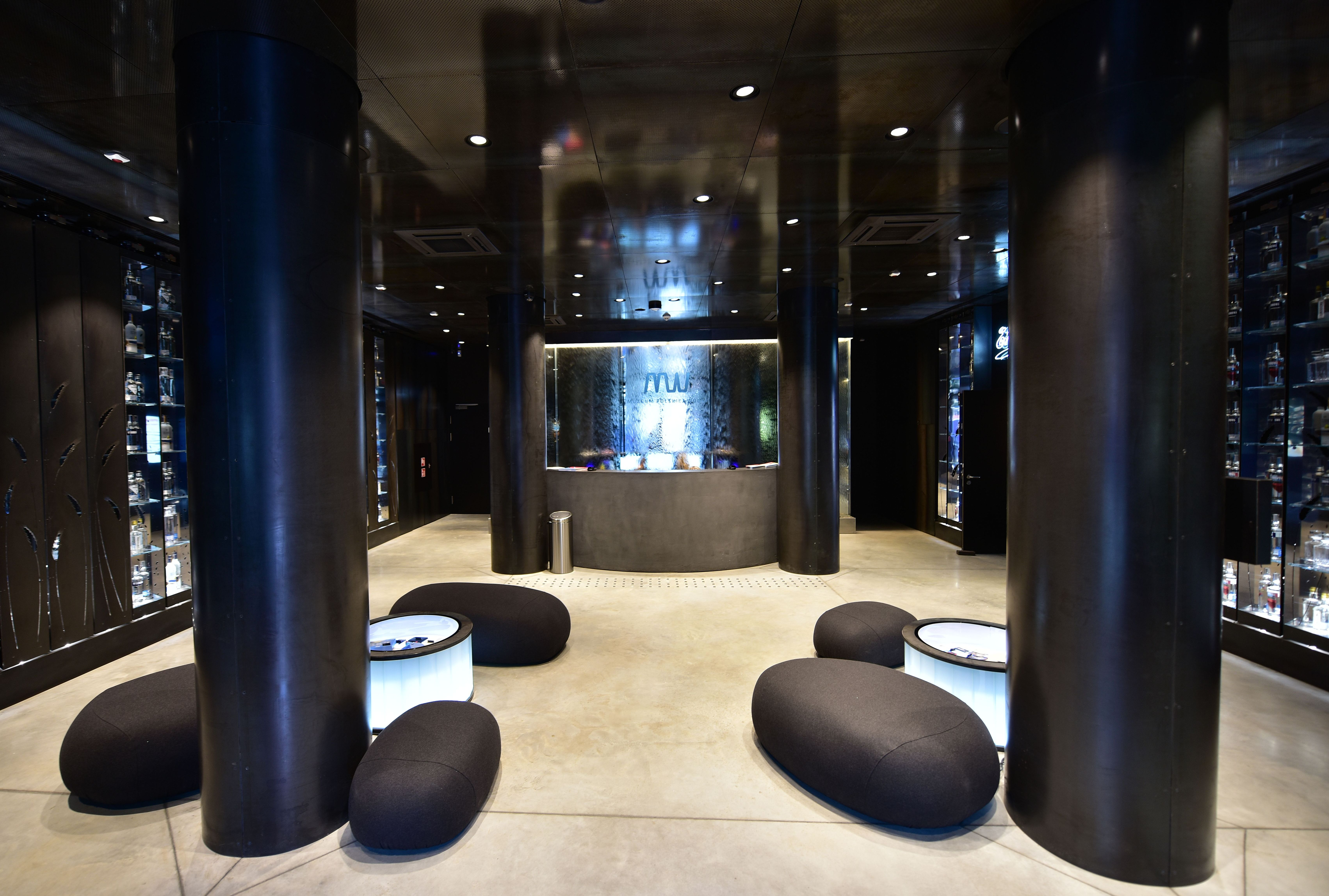 Polish Vodka Museum in Warsaw. The lobby